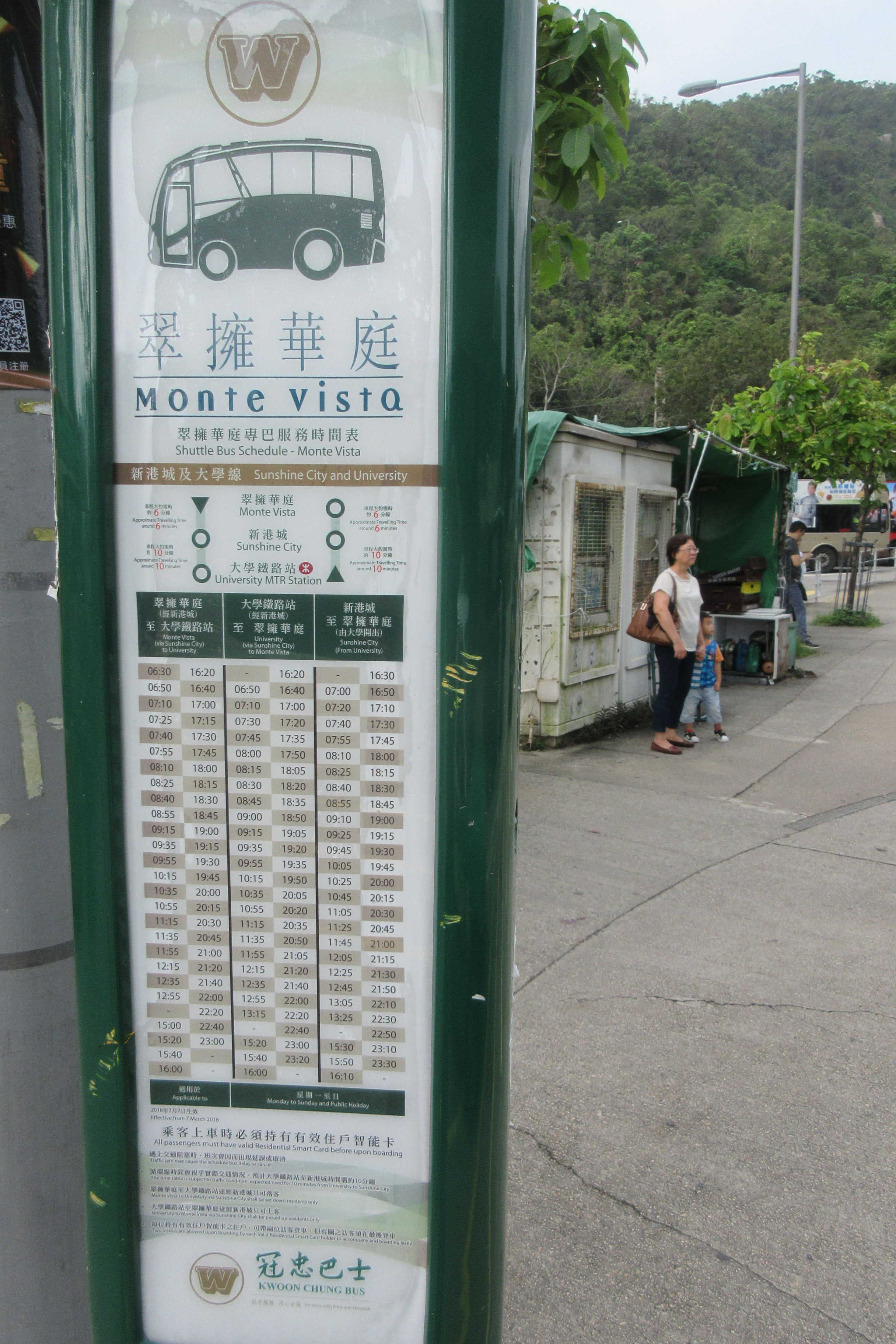 HK 馬料水 Ma Liu Shui 澤祥街 Chak Cheung Street October 2018